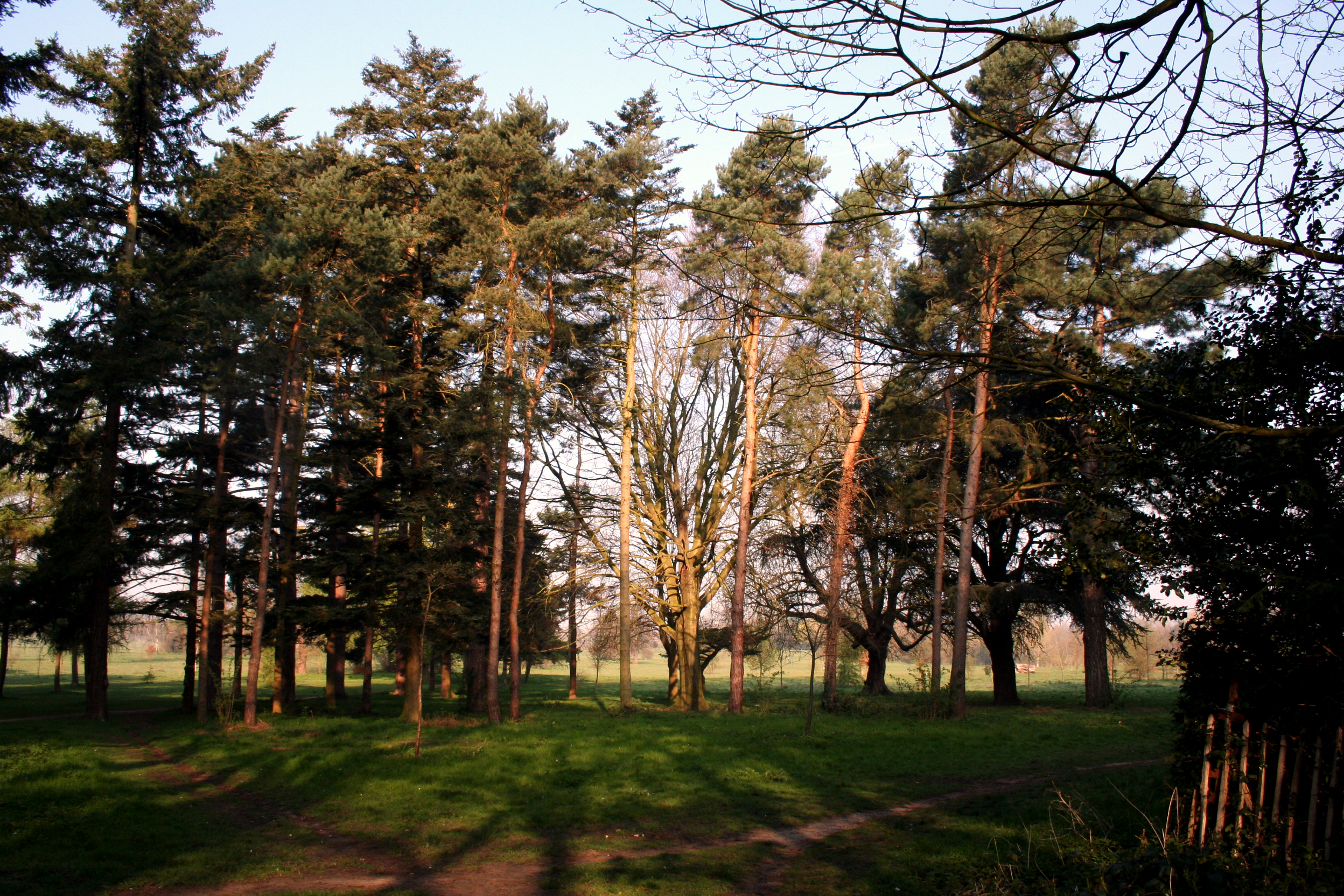 Currently location coords and title of this image don't align, Image ticketed at geograph to ascertain location info